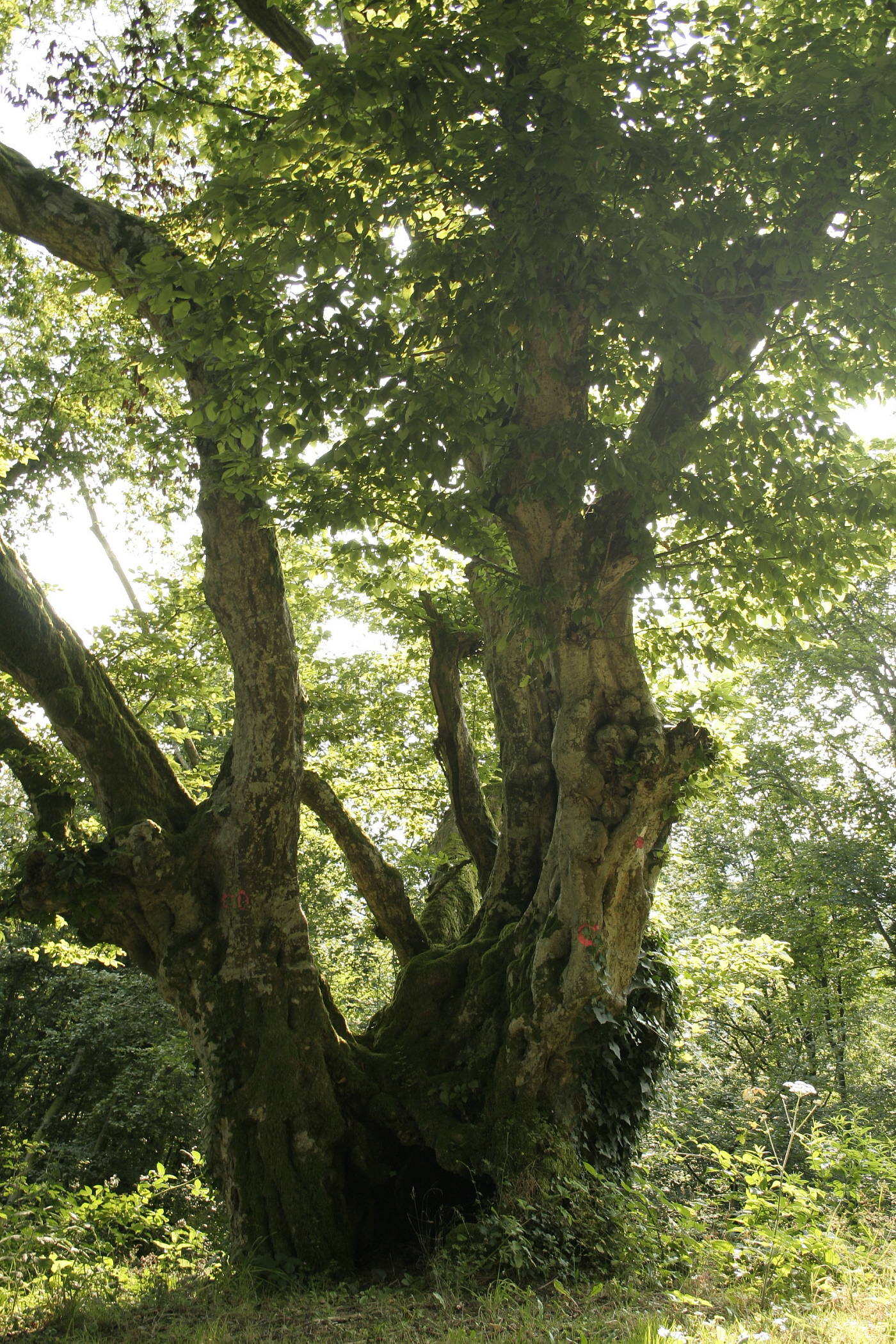 European Hornbeam.